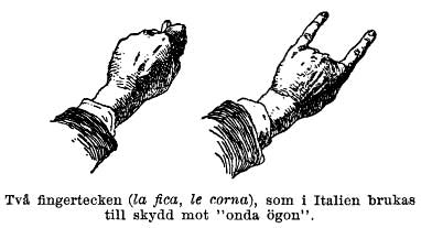 Two handsigns (la fica, le corna)that is used in Italy for protection against the "evil eye".